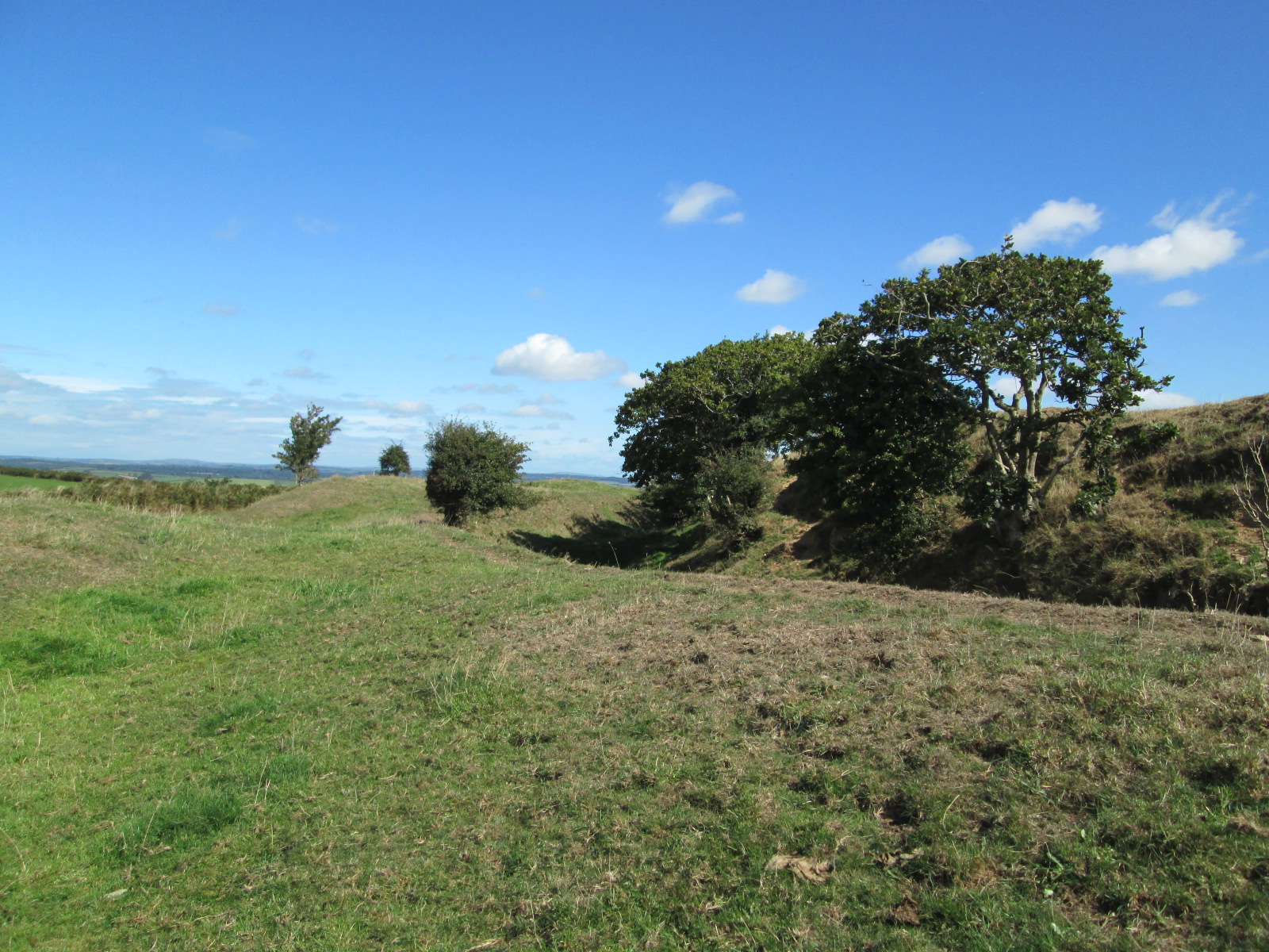 Castle Dore, a prehistoric site in Cornwall, viewed from the west.